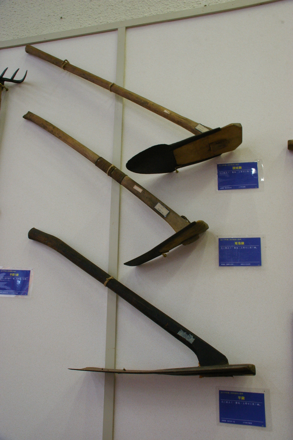 Wooden hoe displayed at the Obira Town Local History Museum, Hokkaido, Japan